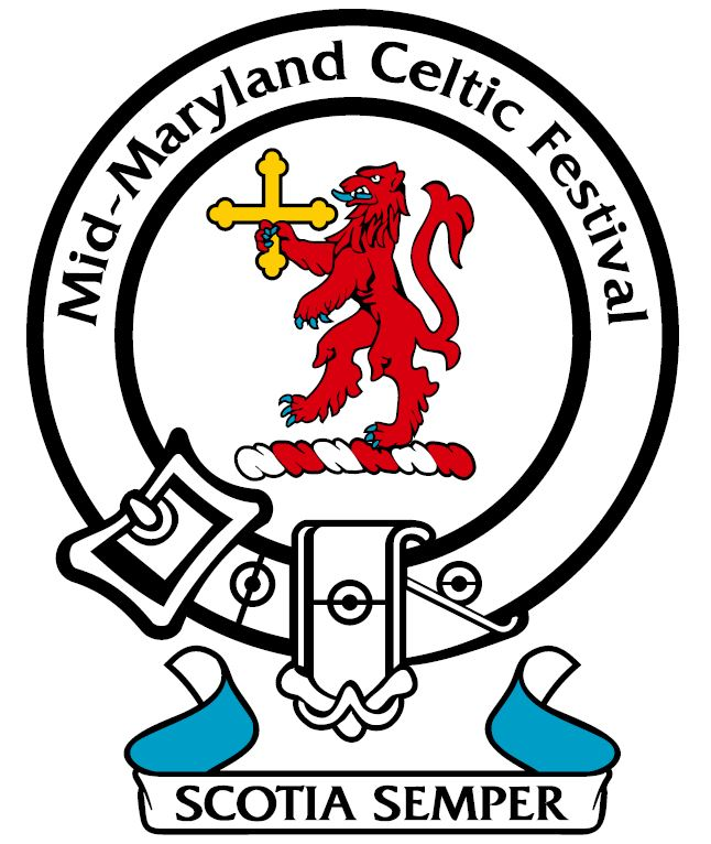 Mid-Maryland Celtic Festival Crest